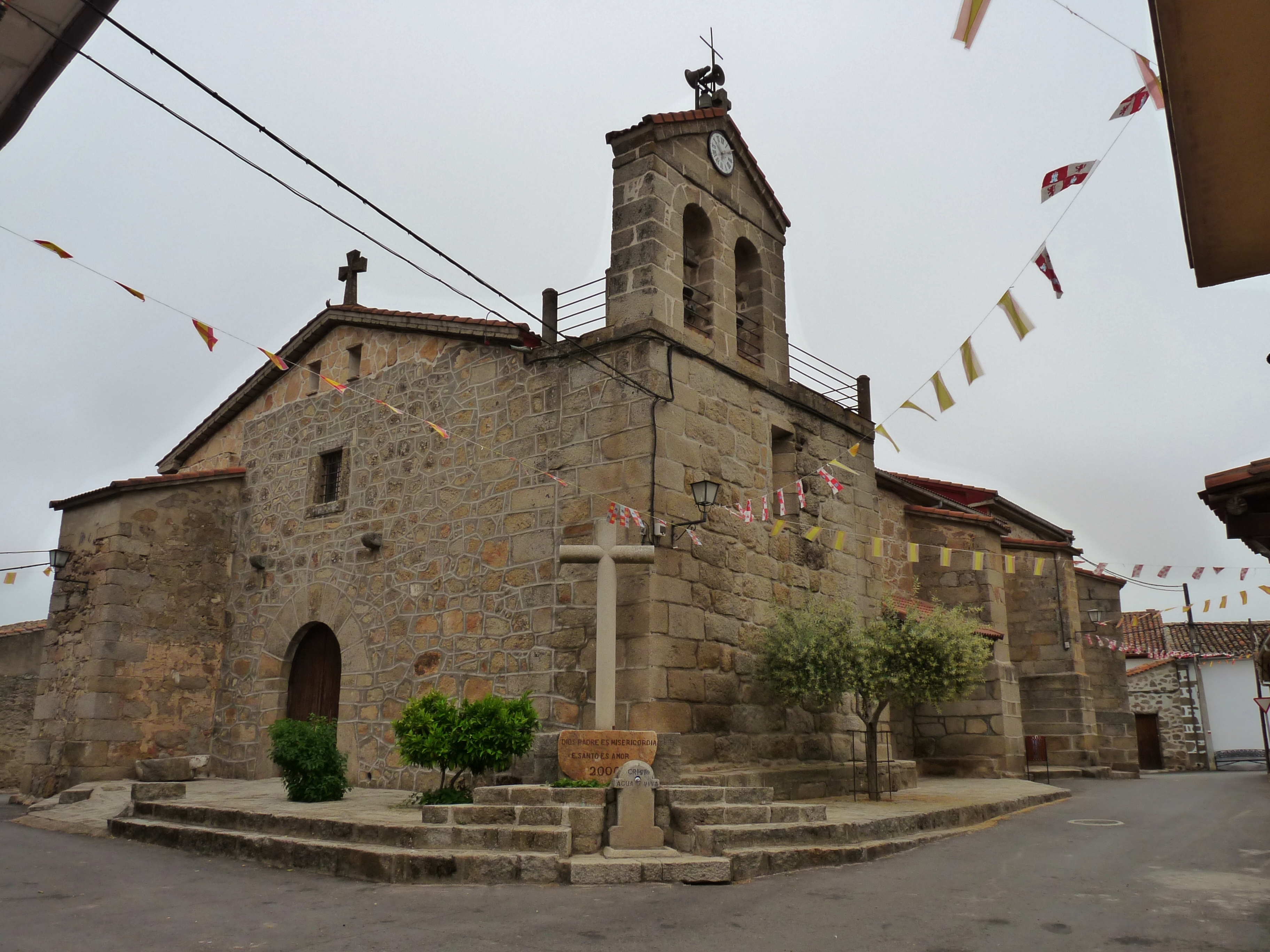 Church in Fresnedilla, Ávila, Castile and León, Spain.